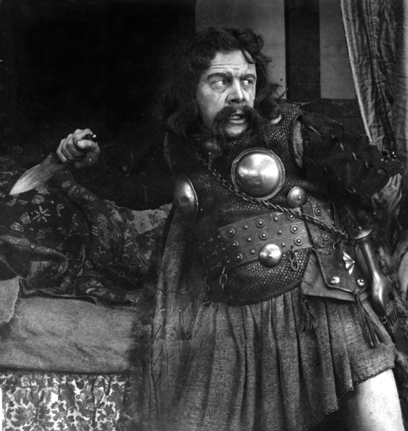 Actor Edmund Gwenn as Macbeth in the The Real Thing at Last (1916)